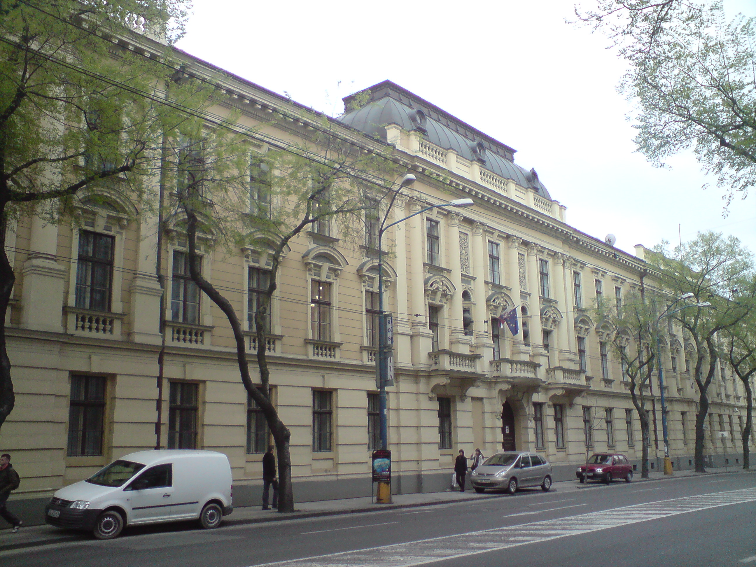 Karácsonyiho palác, Štefánikova, Bratislava This medium shows the protected monument with the number 101-596/0 in the Slovak Republic.